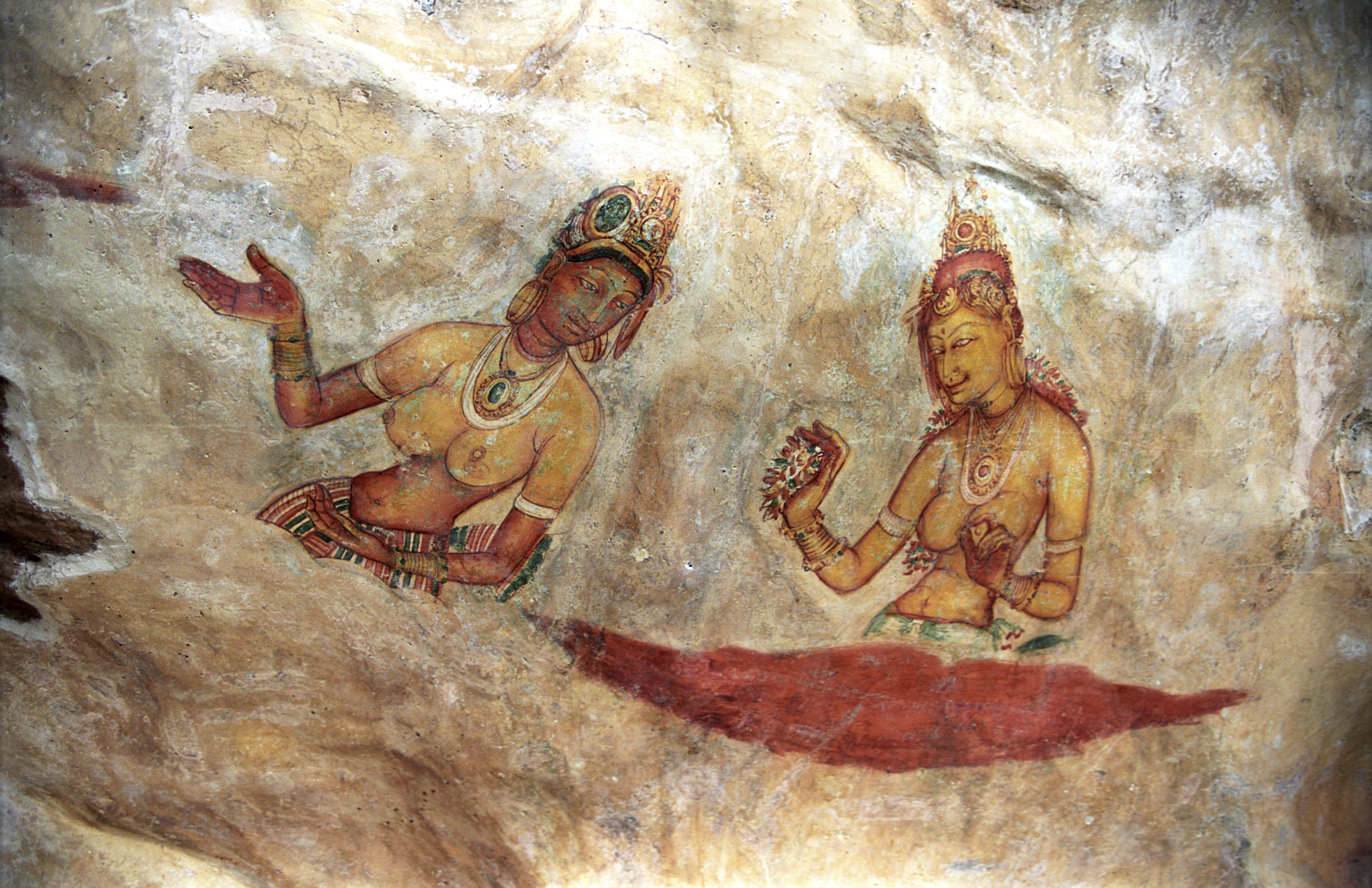 Fresco in Sigiriya